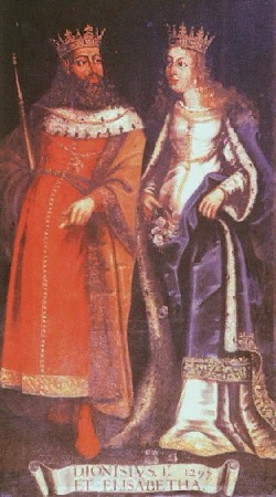 Denis of Portugal and Elizabeth of Aragon